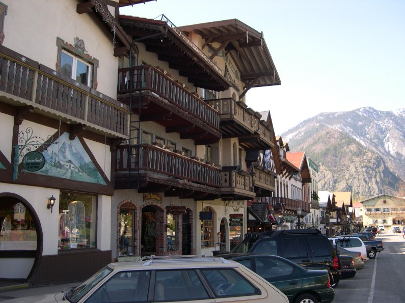 Main street of Leavenworth, Washington. Produced and released by David Morgan-Mar (Dmmaus), 10 April, 2004. Nikon Coolpix 4300. Secondary